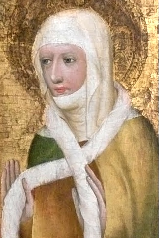 Saint Ludmila from the Votive Painting of Archbishop Jan Očko of Vlašim.